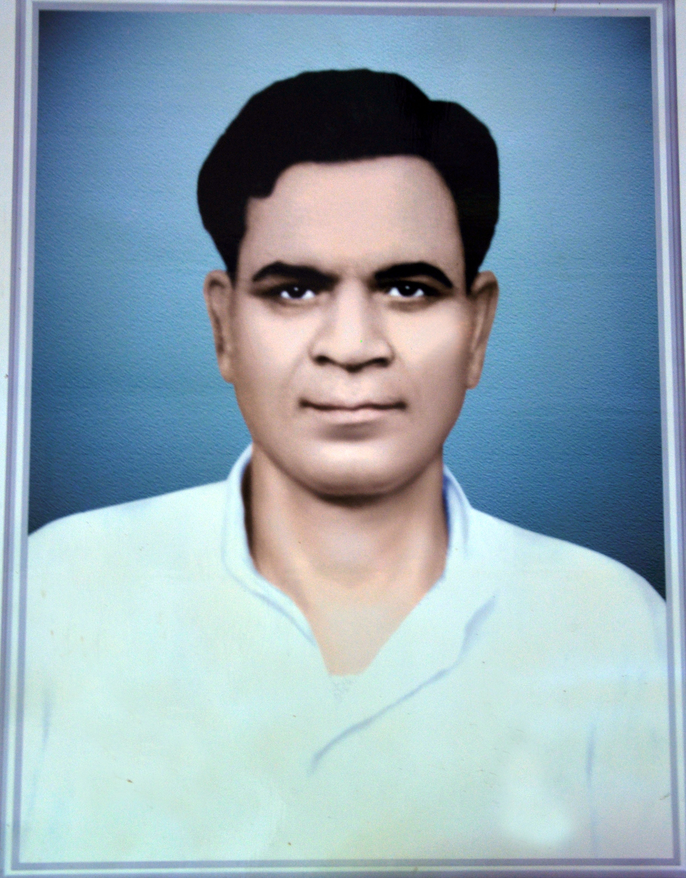 Photograph of Ram Narayan Sharma